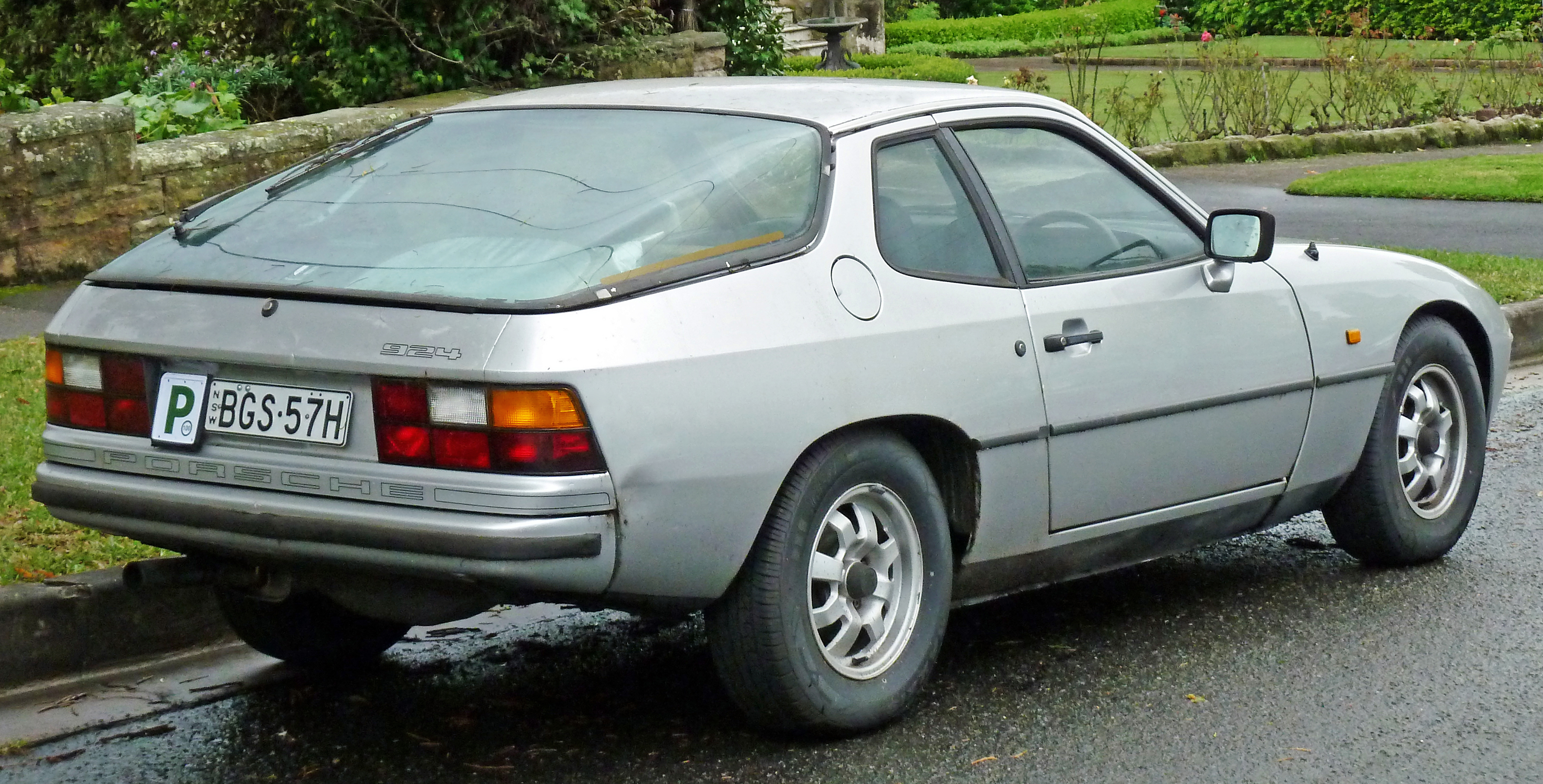 1982 Porsche 924 coupe. Photographed in Roseville, New South Wales, Australia.